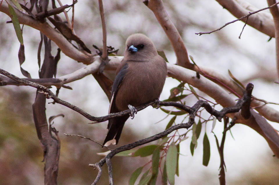 Dusky Woodswallow (Artamus cyanopterus)